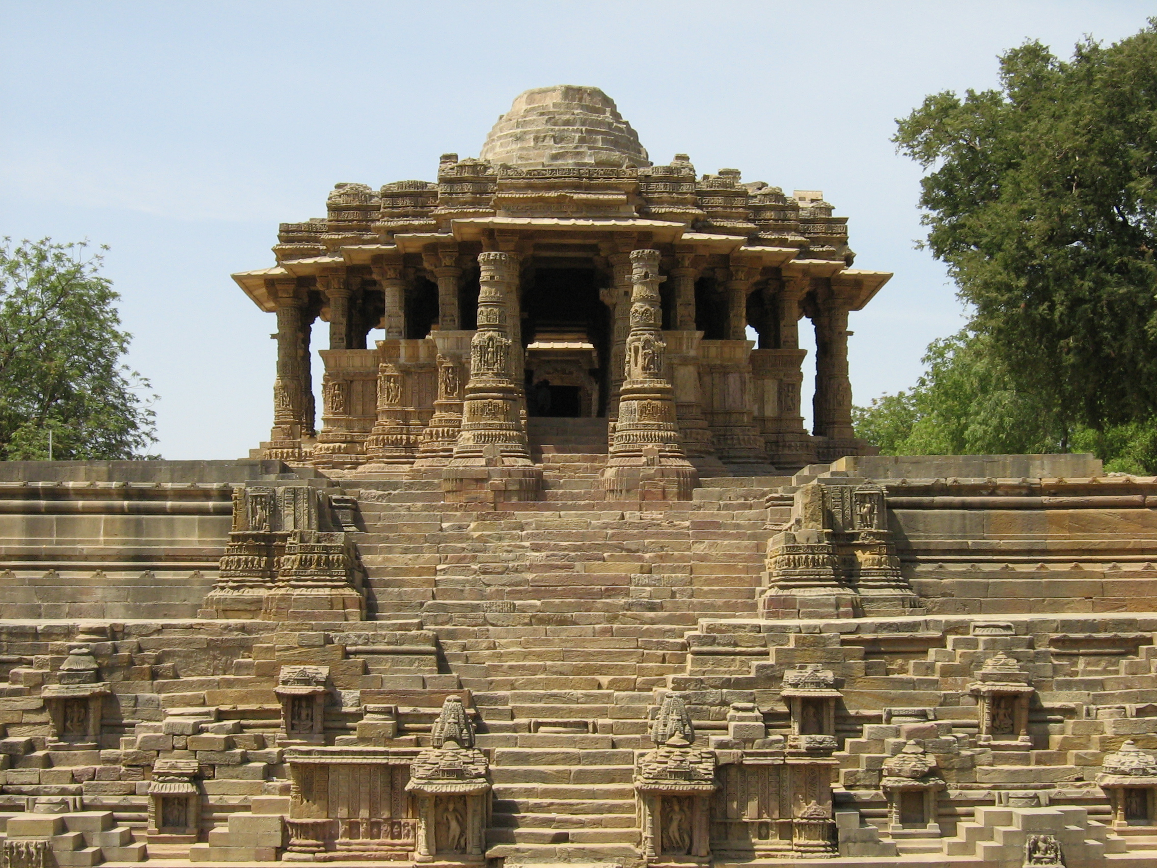 Sun (Surya) Temple (11th century) at Modhera (Gujarat, India) Author : Uday Parmar